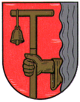 coat of arms of the former municipality of Benteler, now part of Langenberg